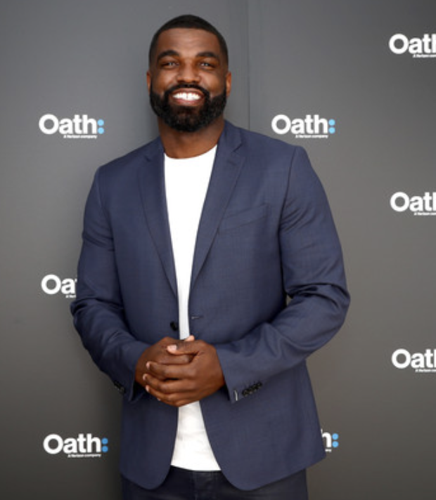 Jared Quay at Verizon Media NewFronts